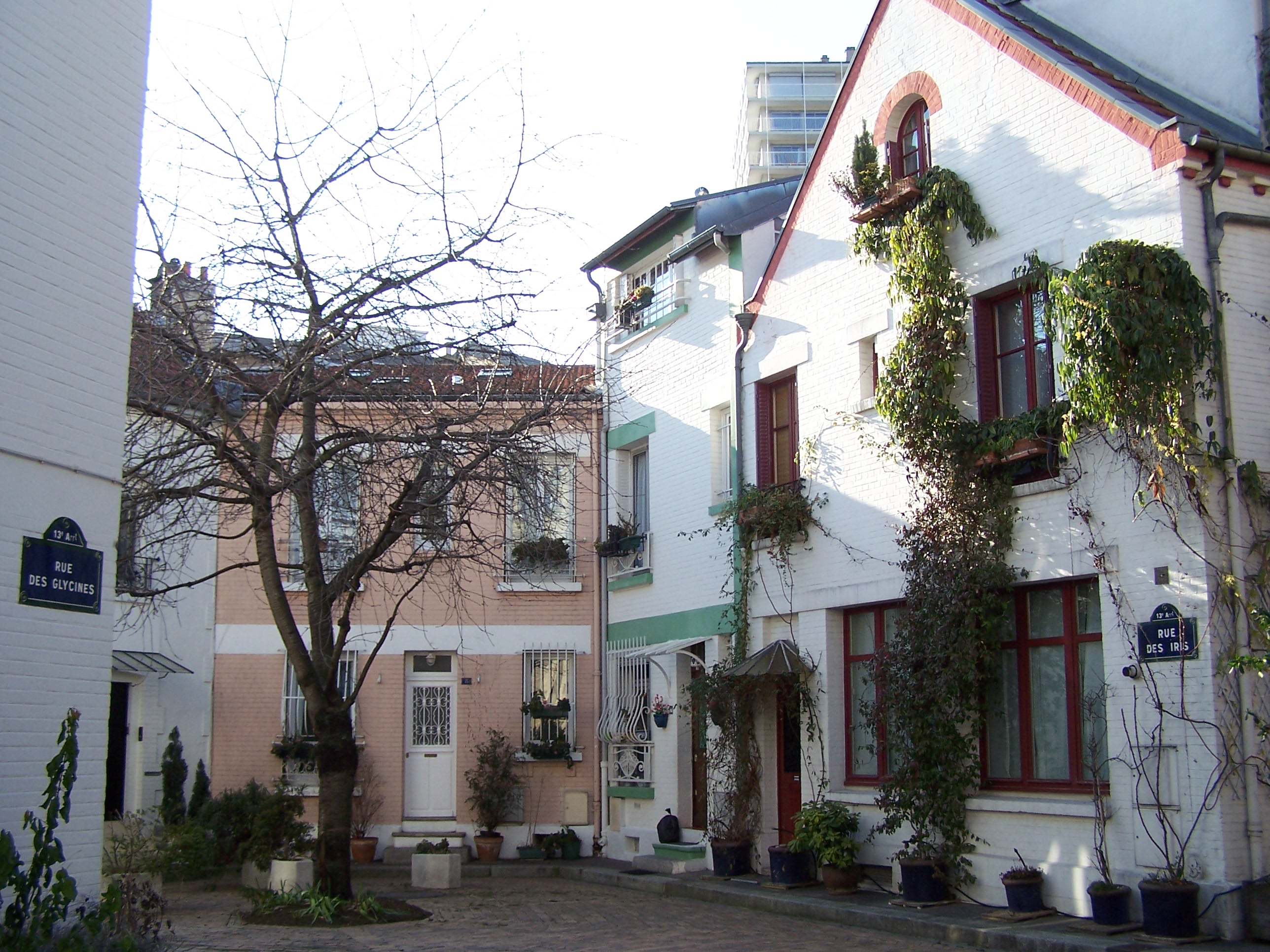 Cité florale in Paris, at rue des Iris and rue des Glycines